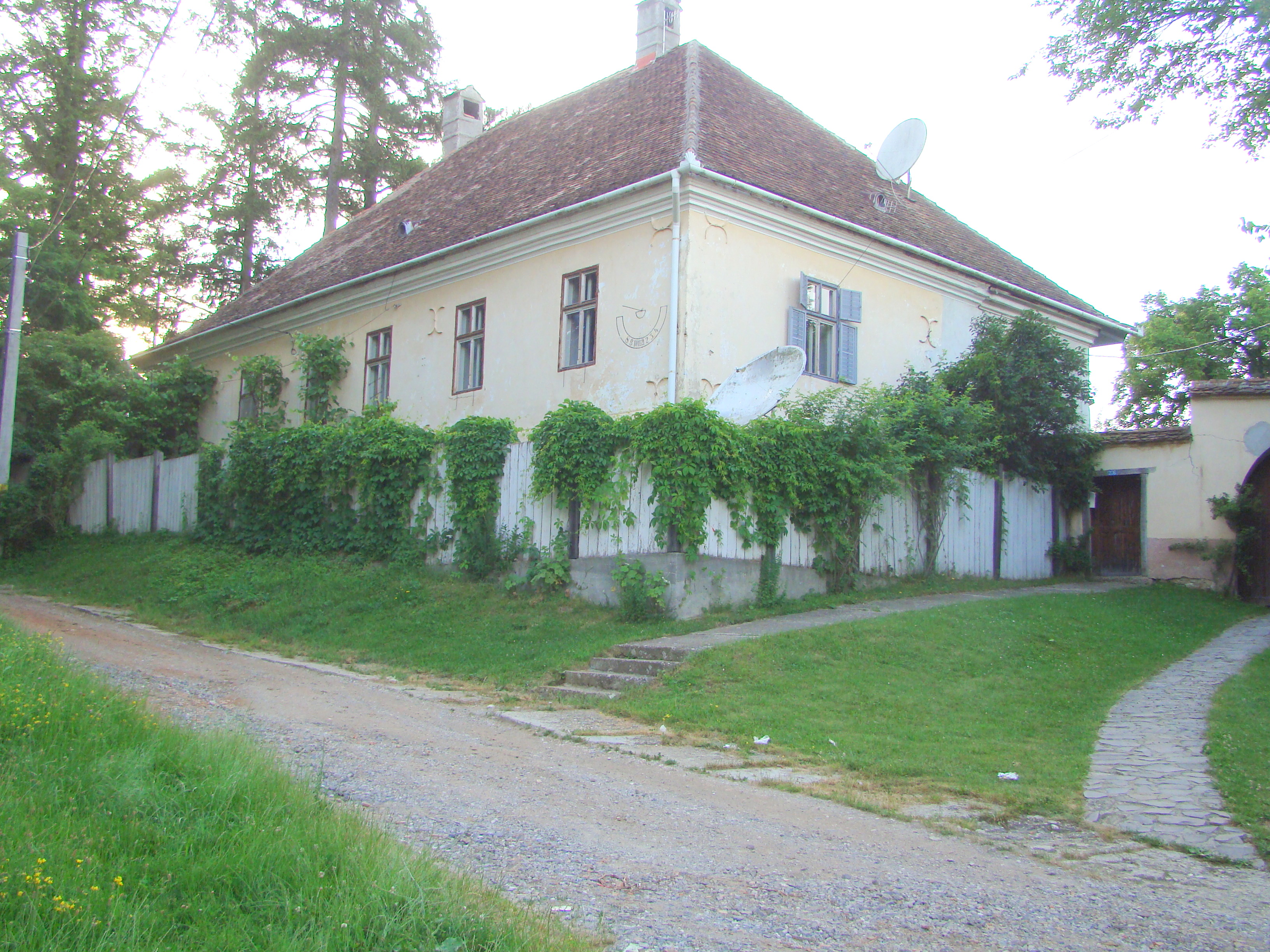 Fortified church in Ticușu Vechi, Brașov County, Romania